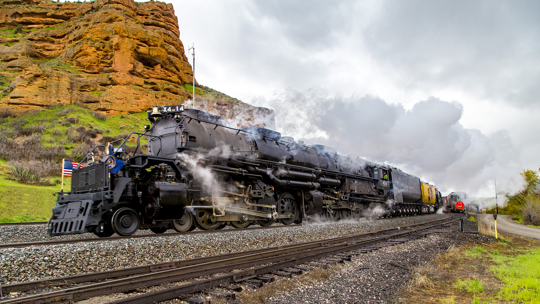 Union Pacific Big Boy number 4014, along with Union Pacific 844, in route to Ogden Utah, to help celebrate the 150th anniversary of the driving of the Golden Spike. 4014 was one of 25 Big Boys built by the American Locomotive Company for Union Pacific Railroad. They ran primarily between Ogden, Utah, and Cheyenne, Wyoming. The Big Boys were the largest, and heaviest of their type ever built, 132 feet long, 1,250,000 pound in weight.